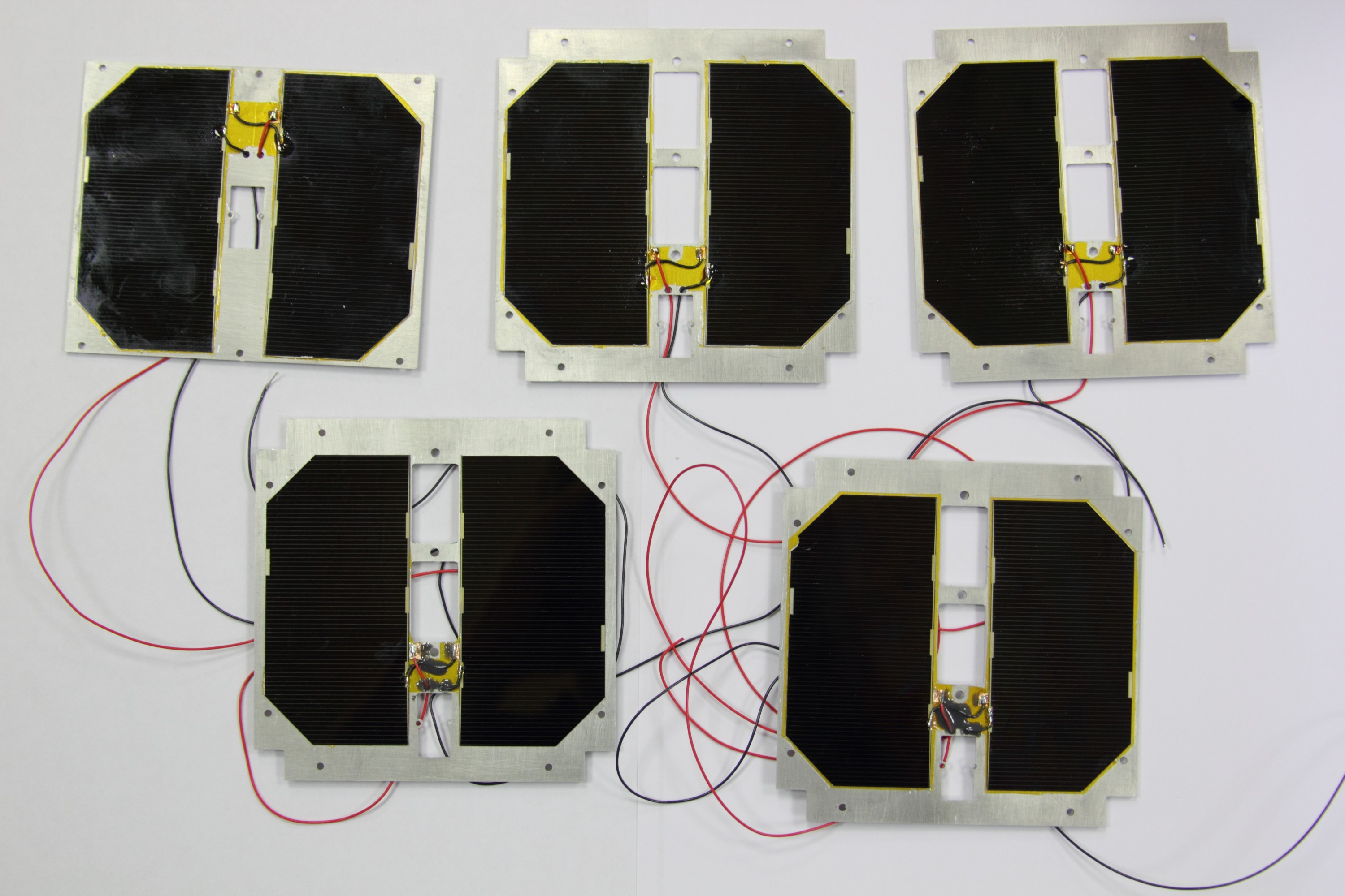 Solar panels for CubeSat ESTCube-1